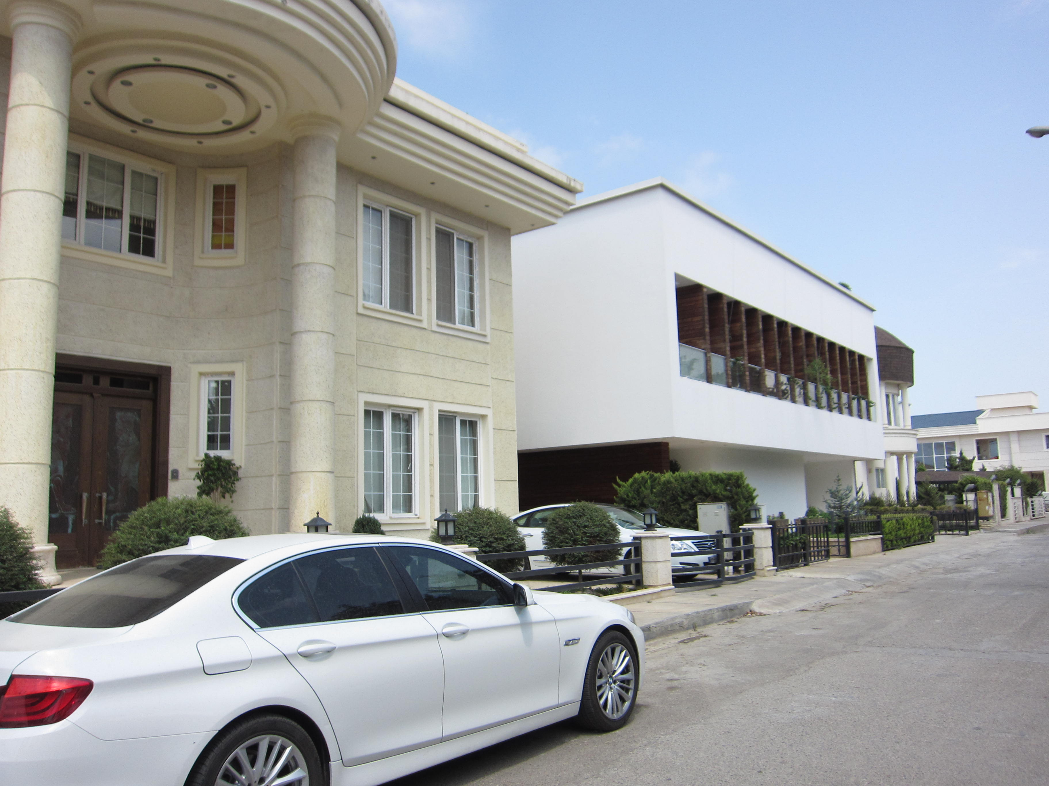 Villas in Khezershahr (a tourist town in Fereydunkenar county, Mazandaran province, Iran)